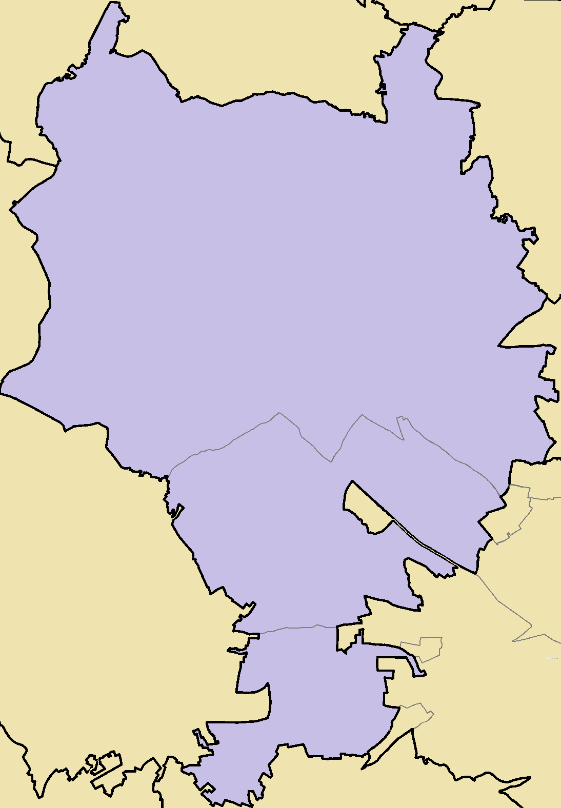 Aradippou with quarters.